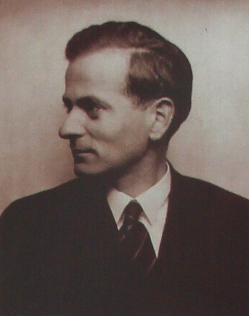 Memorial plaque, Institut für Staatsforschung, Am Großen Wannsee 58, Berlin-Wannsee, Germany